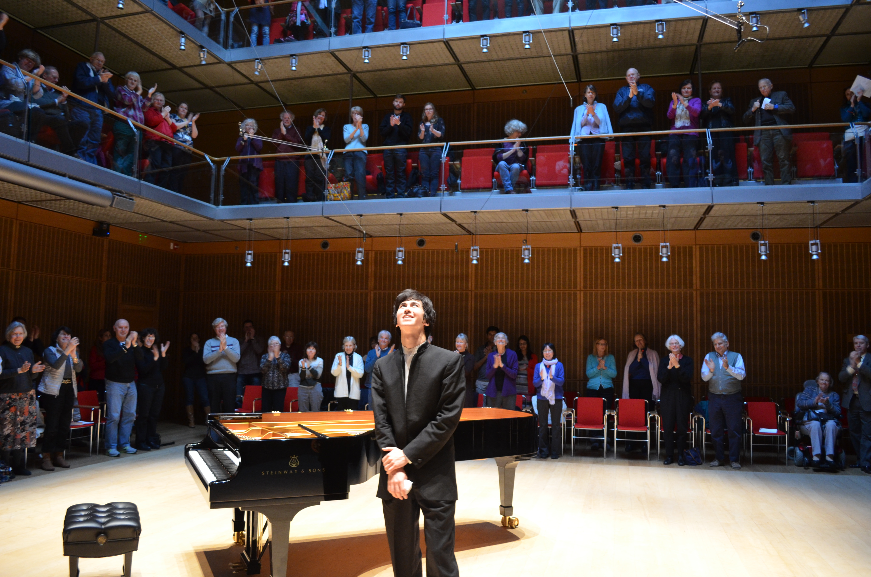 Steinway Artist Charlie Albright Performing at the Isabella Stewart Gardner Museum